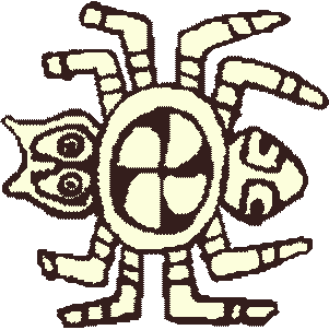 Etching of a spider from Spiro Mound site.